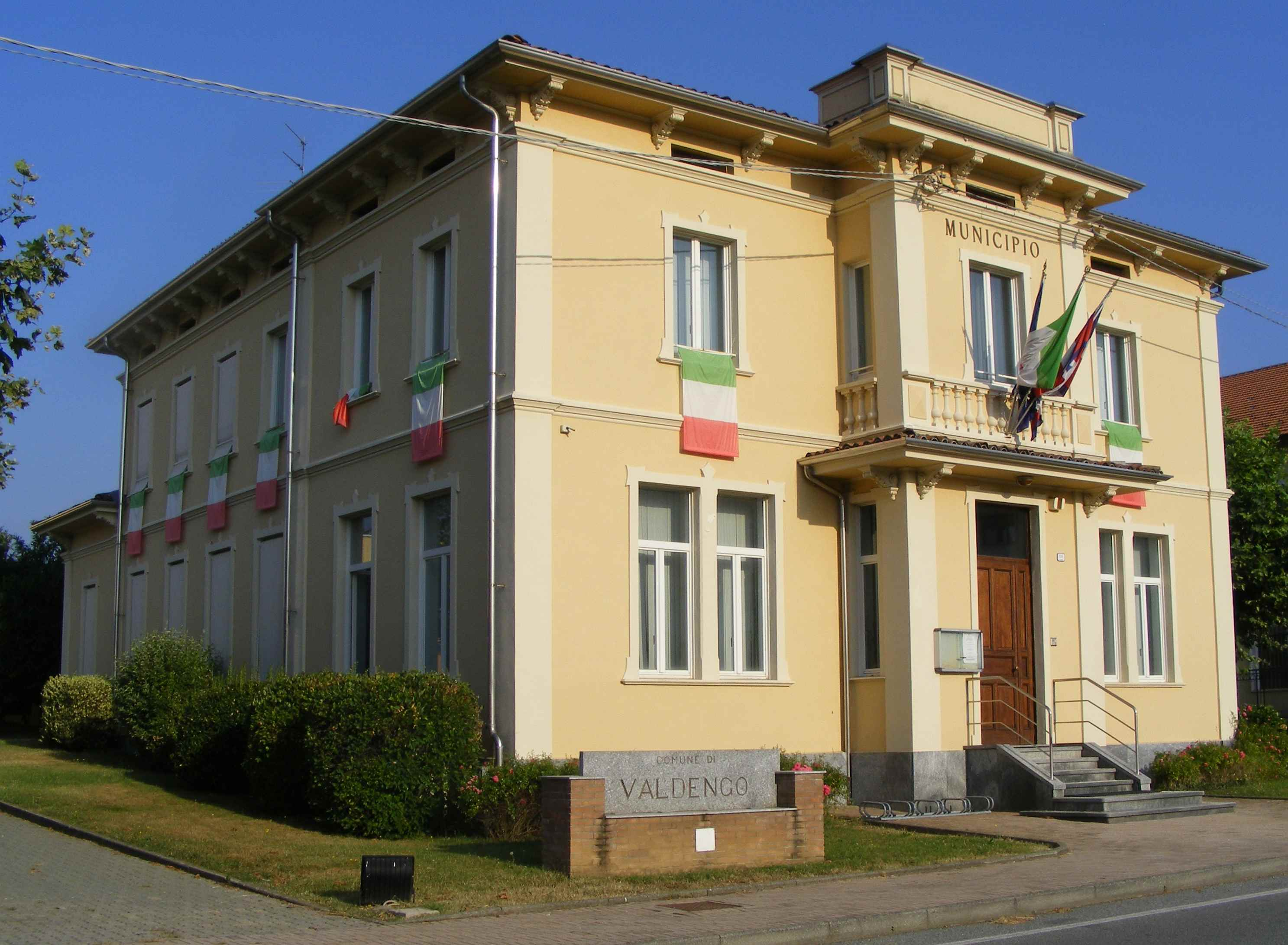 Valdengo (BI, Italy): town hall